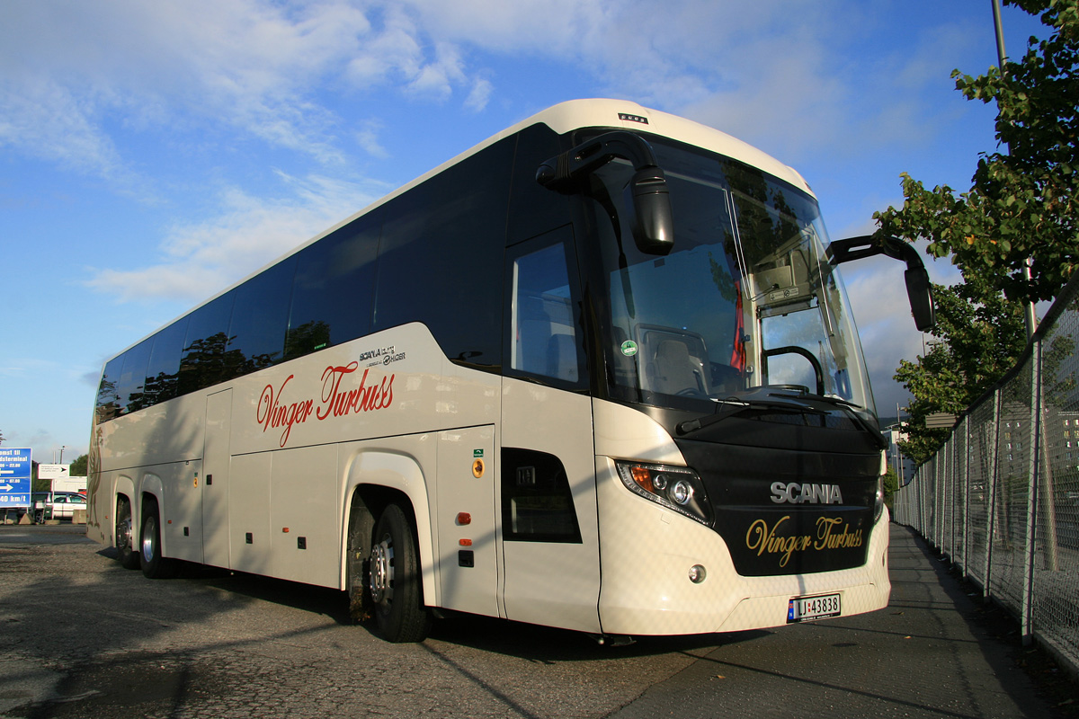 Scania TK 440 EB6x2*4NI Touring HD 13.7